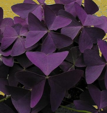 this is Oxalis regnelli